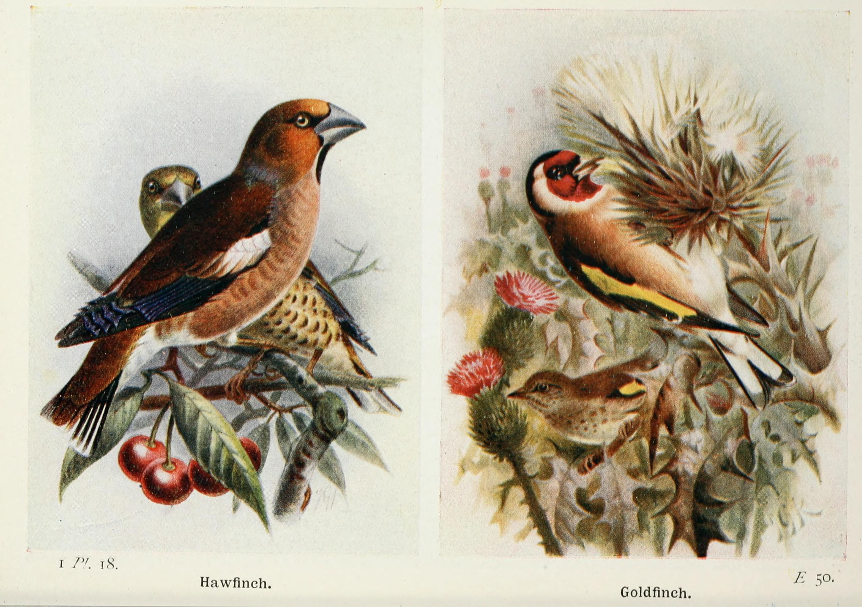 The birds of the British Isles and their eggs.